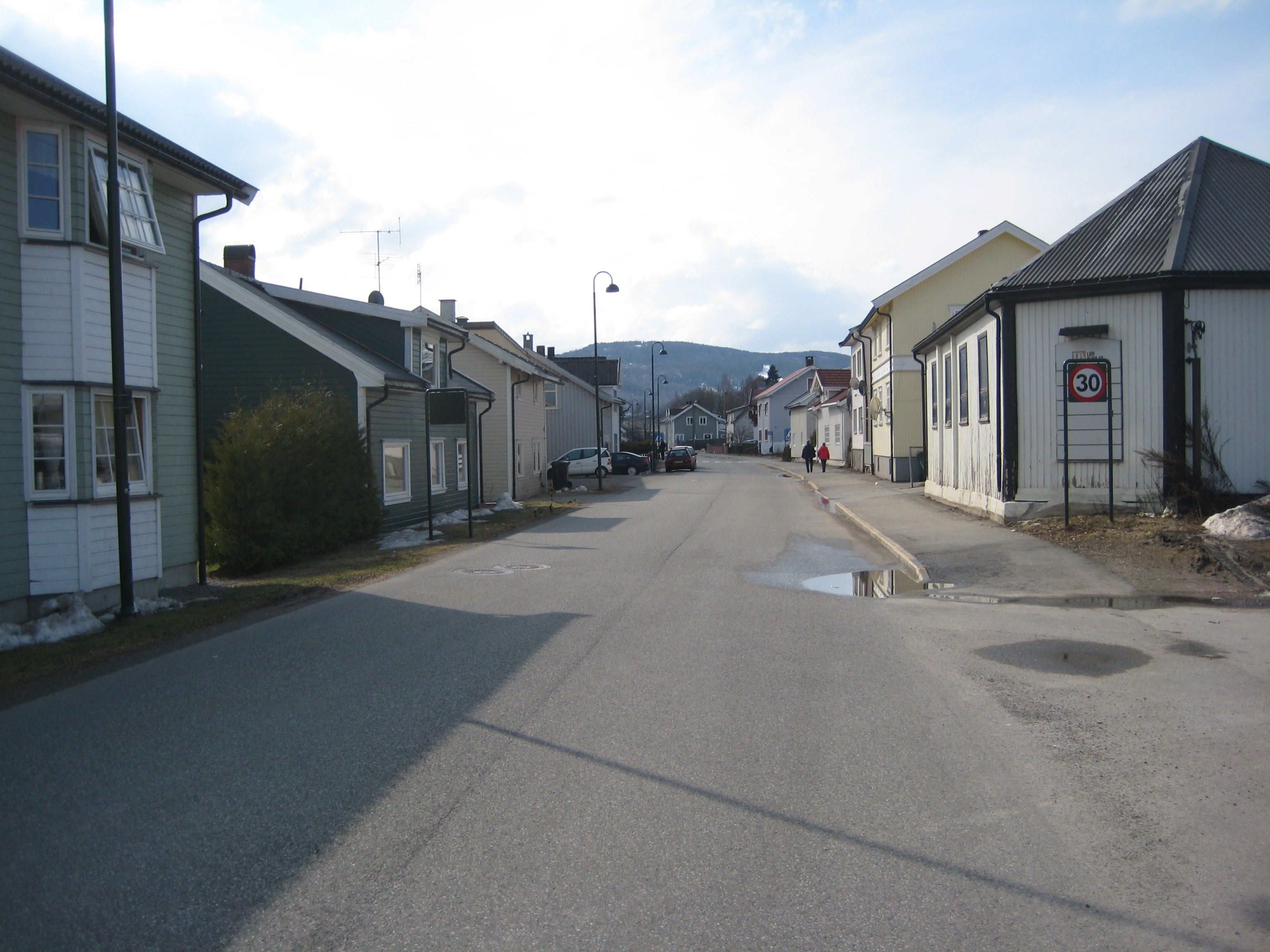 Lierstranda, a suburb to Drammen in Lier Muncipality, Norway.